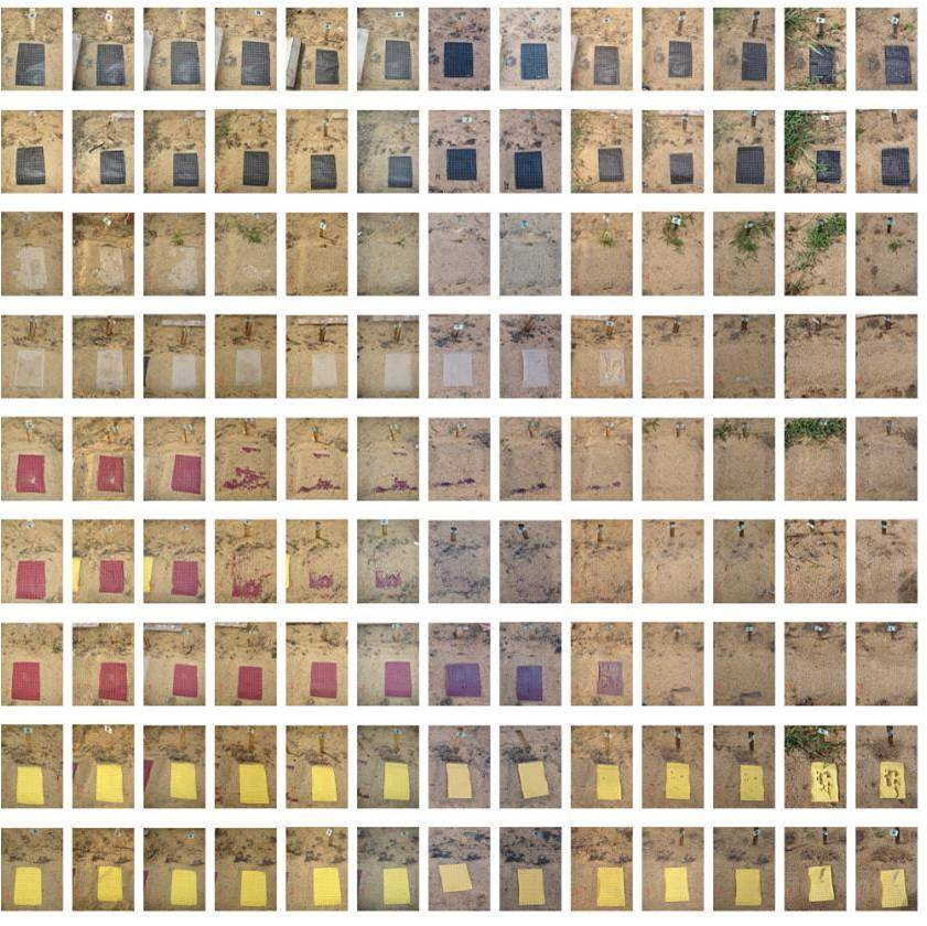 illustration of the Oxo-Bio-Degradation is, as the name describes, a two-step process whereby the conventional polyolefin plastic is first oxo-degraded to short-chain oxygenated molecules (typically 2-4 months exposed) and then biodegraded by the micro-organisms (Bacteria, Fungi, etc.).